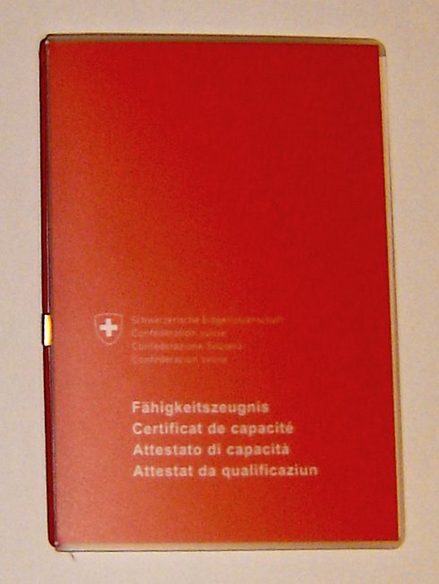 Federal Vocational Diploma.